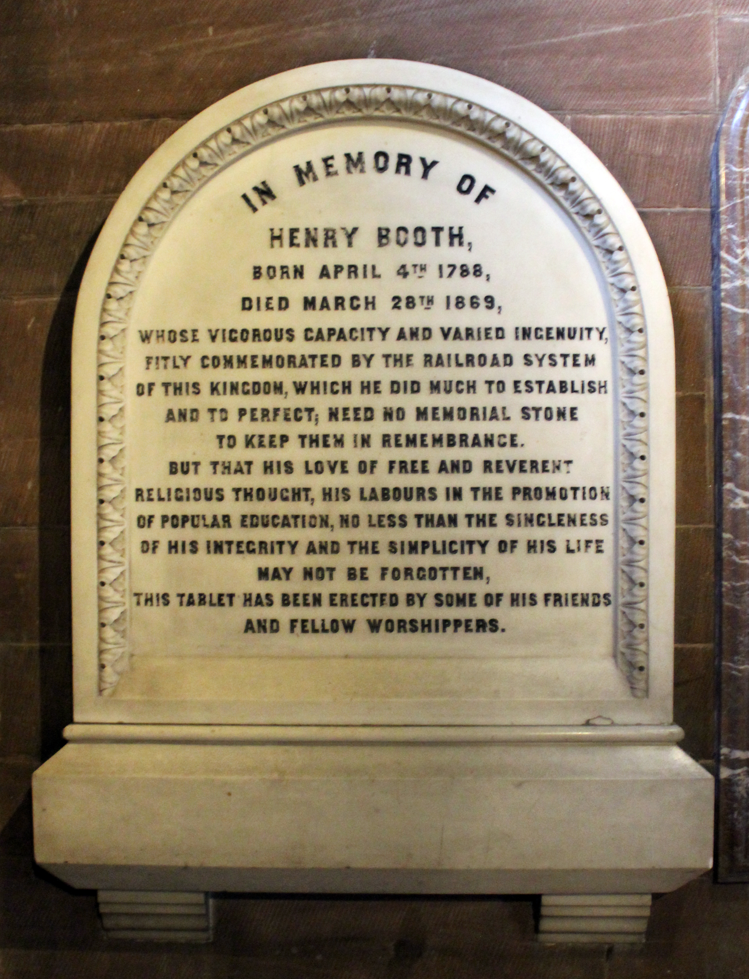 Memorial to Henry Booth, founder of the Liverpool and Manchester Railway, in Ullet Road Unitarian church